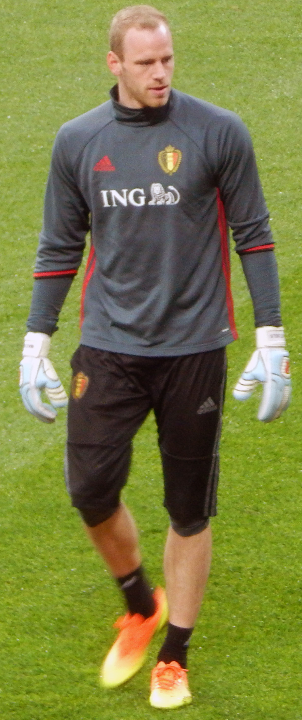 This photo was taken on March 28, 2017 during the exhibition game between Russia and Belgium. That game was held in Adler (City of Sochi) at the Fisht stadium.